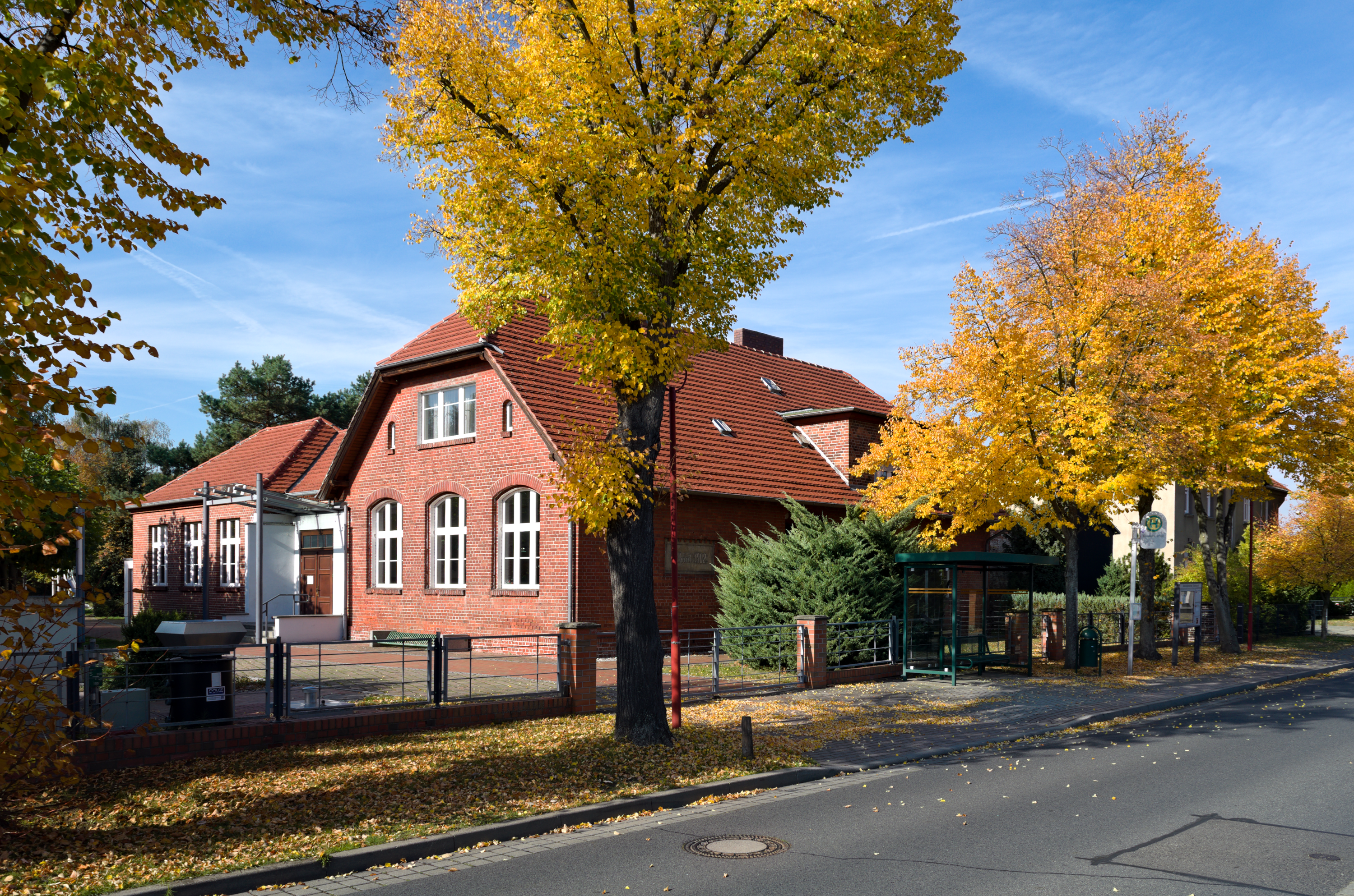 Former village school of Cottbus-Kiekebusch, now housing the community center.